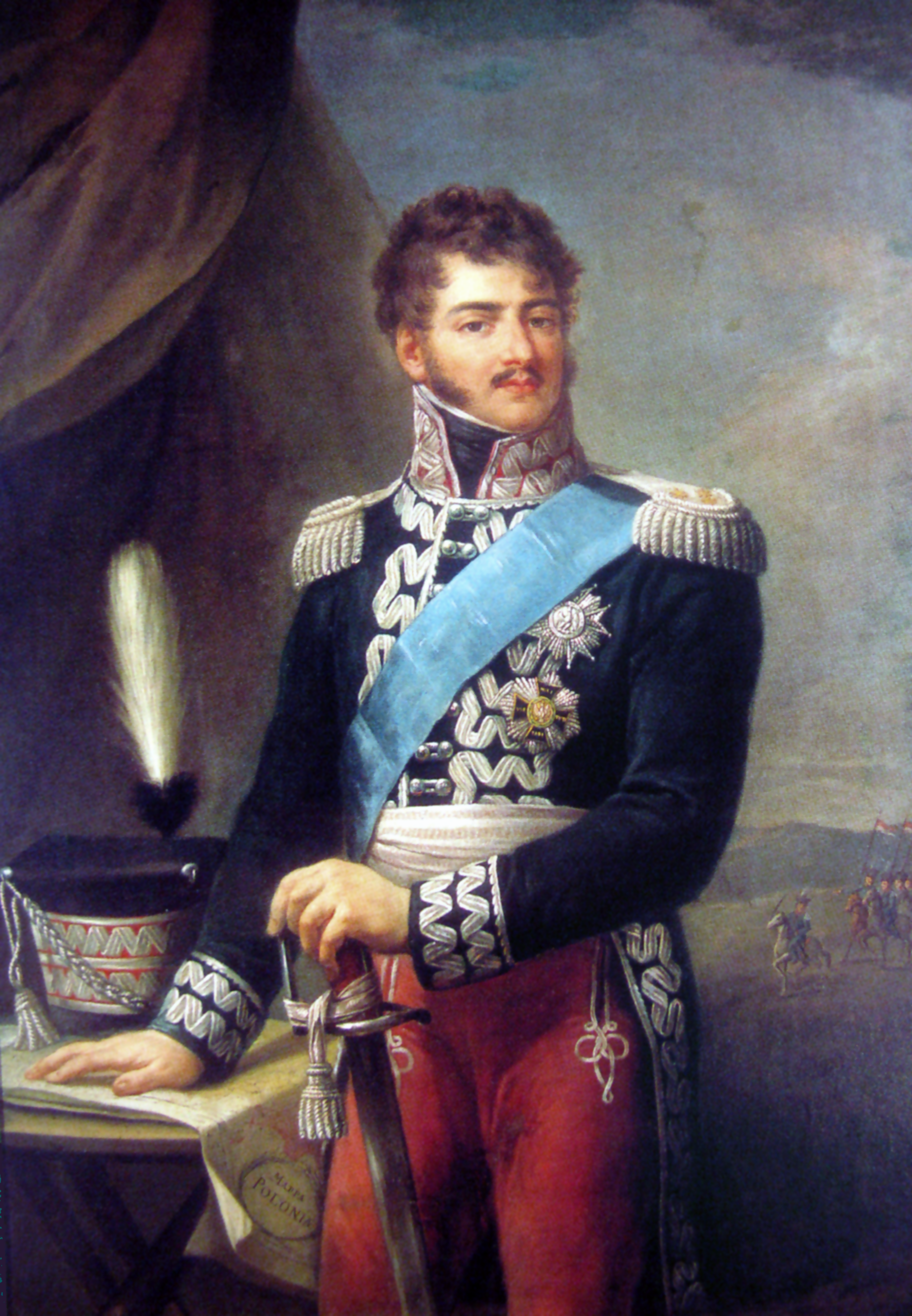 Prince Joseph Poniatowski